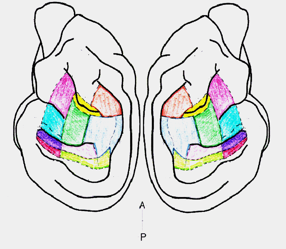 Mirrored lateral view of a cat brain with the 13 acoustically responsive sections of the auditory cortex shown by dotted lines, and 10 sections colored to depict those implanted with cryoloops. Modified from Figure 1 of Malhotra, S., & Lomber, S. G. (2007). Sound localization during homotopic and heterotopic bilateral cooling deactivation of primary and nonprimary auditory cortical areas in the cat. [Review]. Journal of Neurophysiology, 97(1), 26-43.